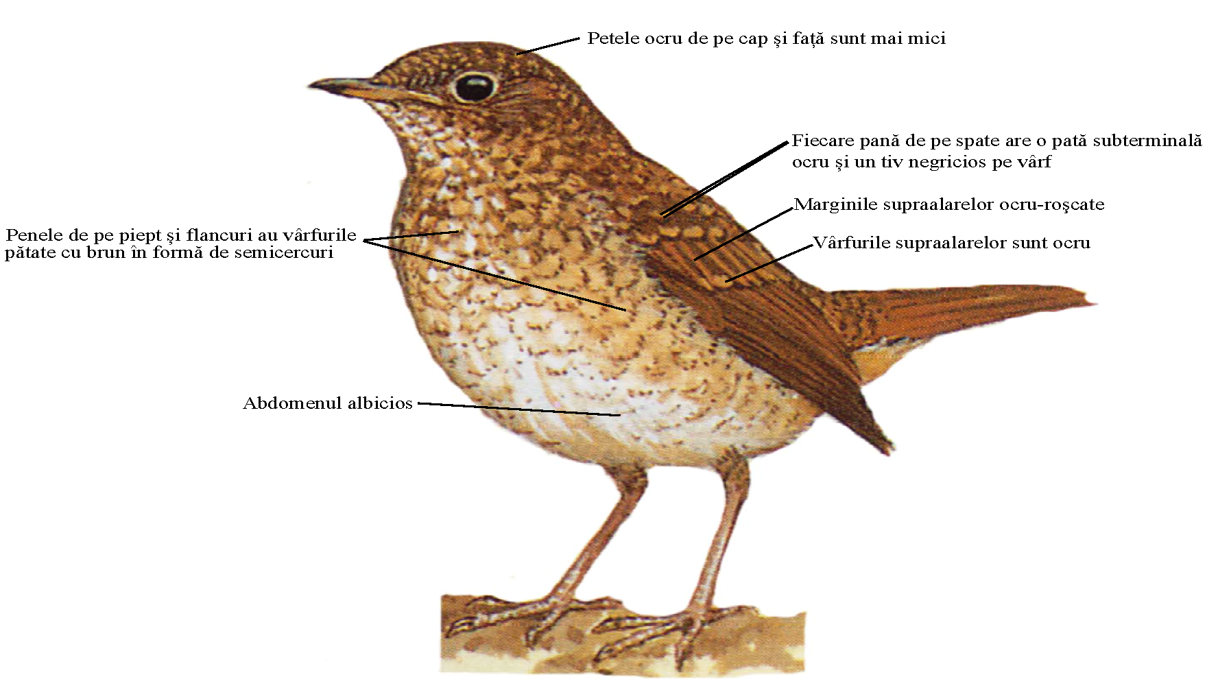 Luscinia luscinia. Juvenile ro